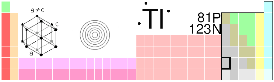 Image by Daniel Mayer or GreatPatton and released under terms of the GNU FDL